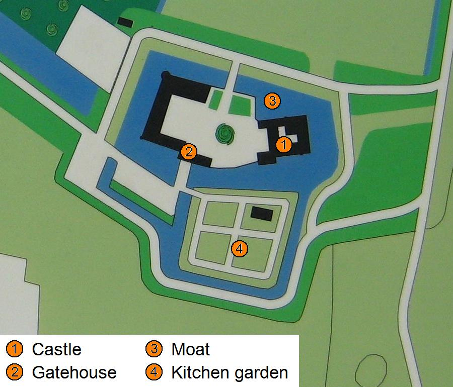 Map of Castle Doorwerth - English captions